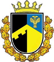 Coat of Arms of Balta raion of Odessa Oblast, Ukraine